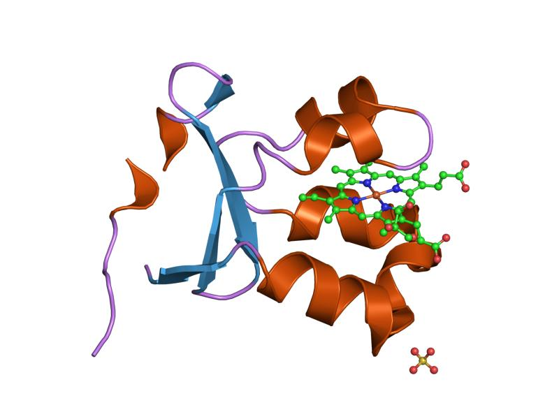 Cartoon representation of the molecular structure of protein registered with 1mj4 code.